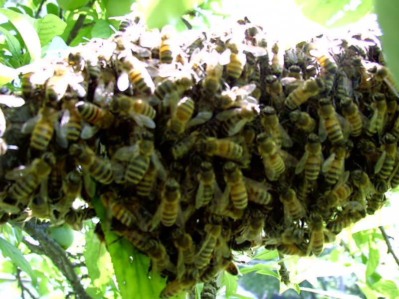 A swarm of Italian bees 2004